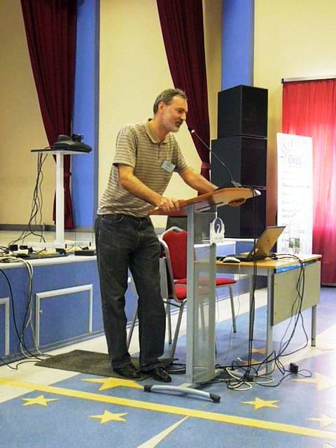 3-rd Interregional Round Table on Translation Practice Issues, May 30-31, 2009, Samara, Russia. Andrei Pominov, Multitran creator speaking at the conference.